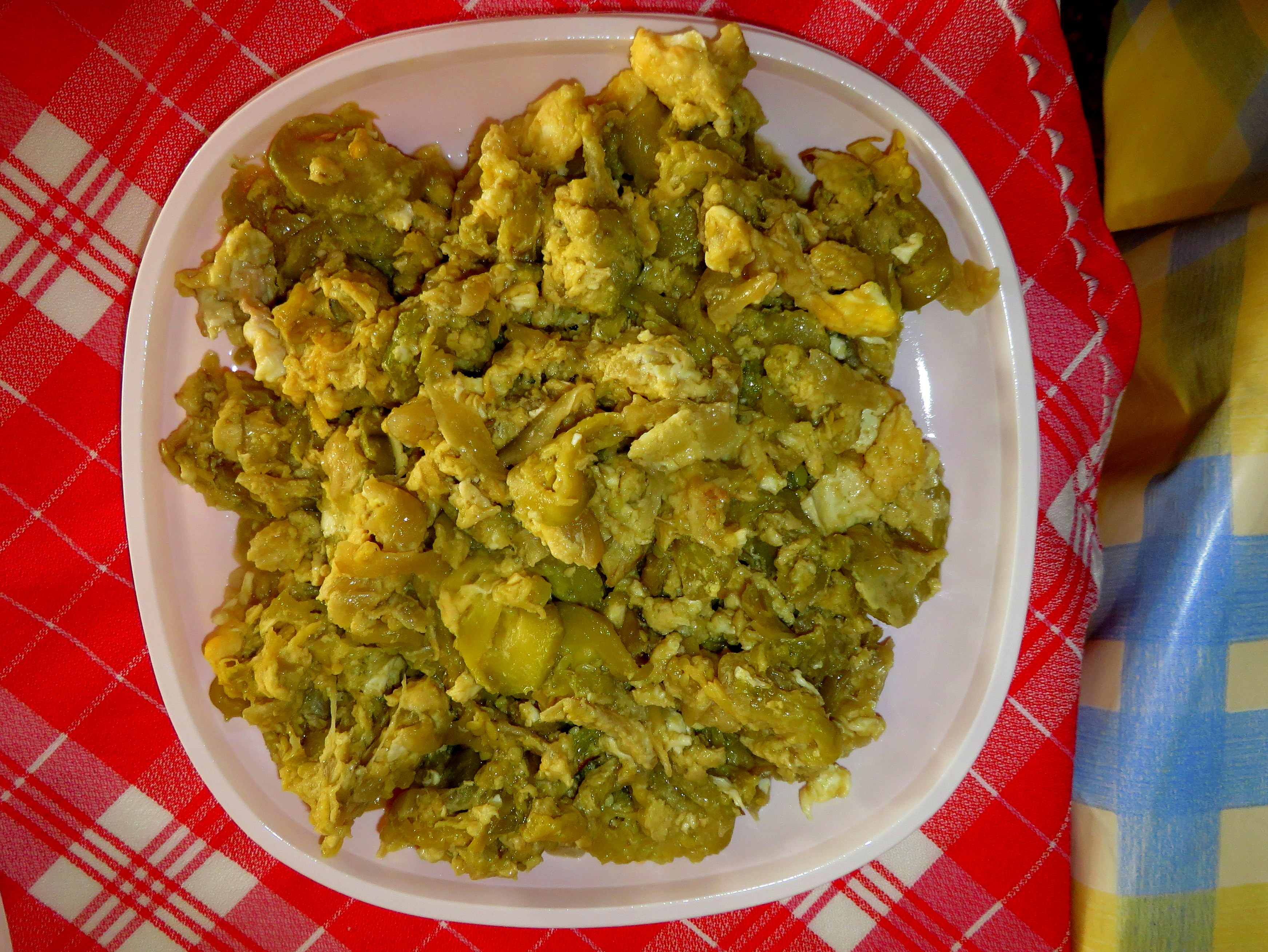 Zarangollo